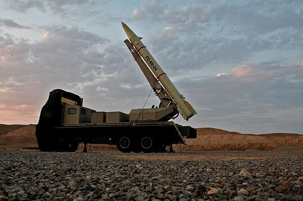 a 4th generation Fateh-110 SRBM.